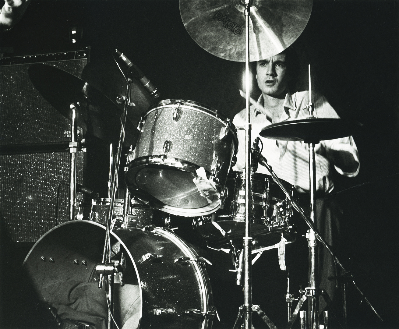 Australian drummer, Hamish Stuart live in concert with Ayers Rock